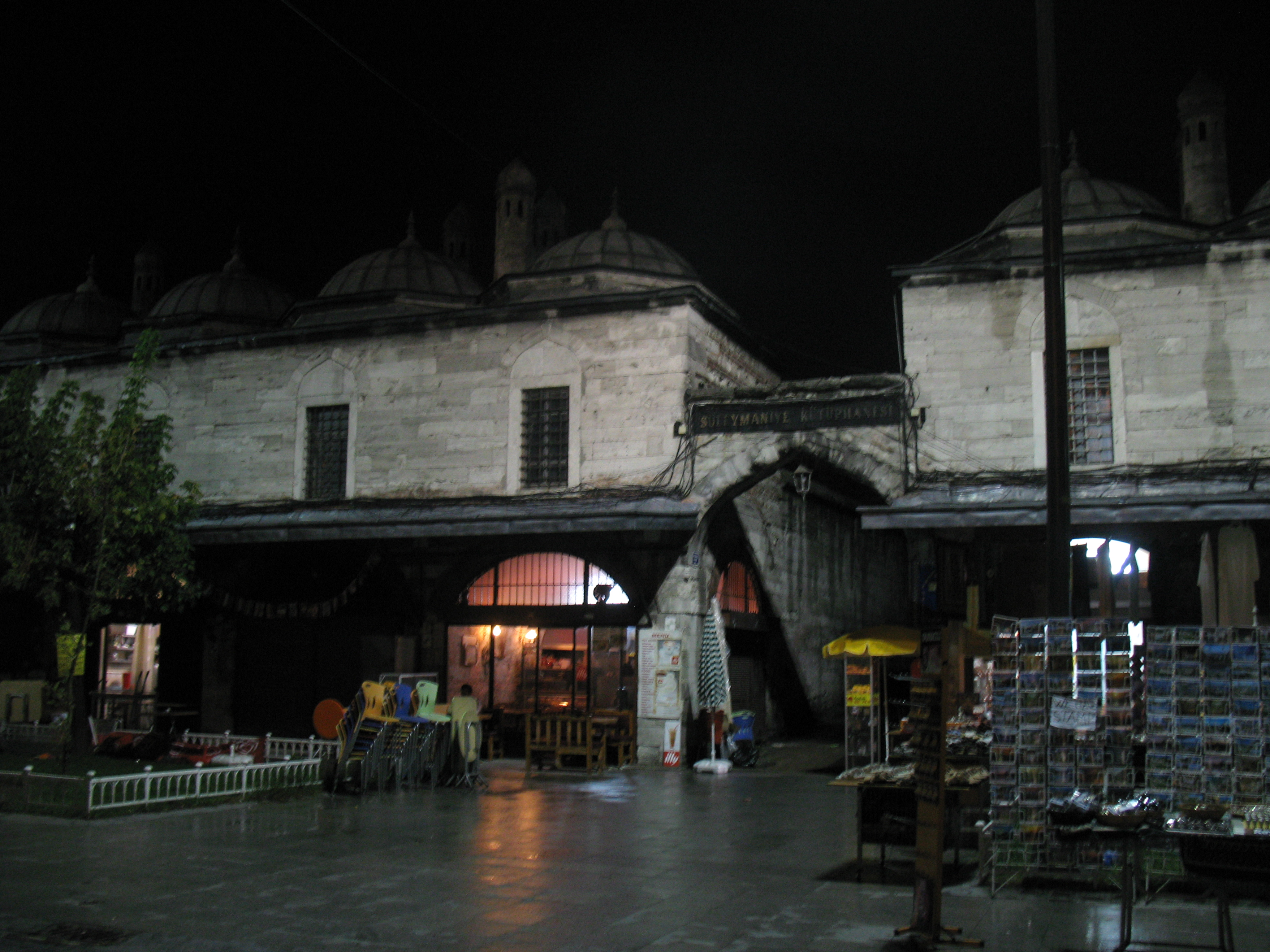 Süleymaniye Library entrance sign at night